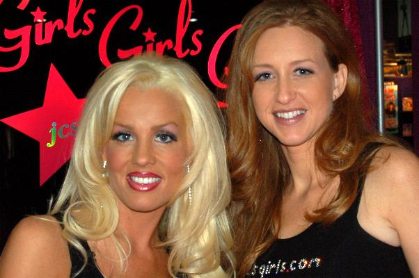 Heather Veitch (left) and Tanya Huerter (right) of the religious group JC's Girls at the 2006 Adult Entertainment Expo